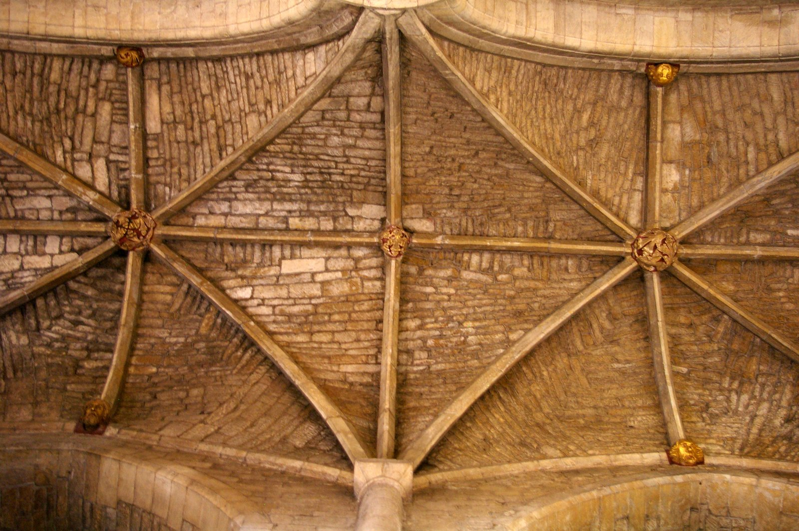 Detailed photo of the ceiling of Tewksbury Abbey.